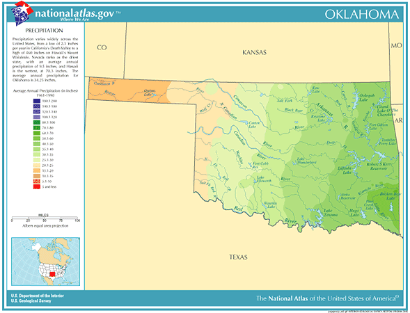 Precipitation of Oklahoma